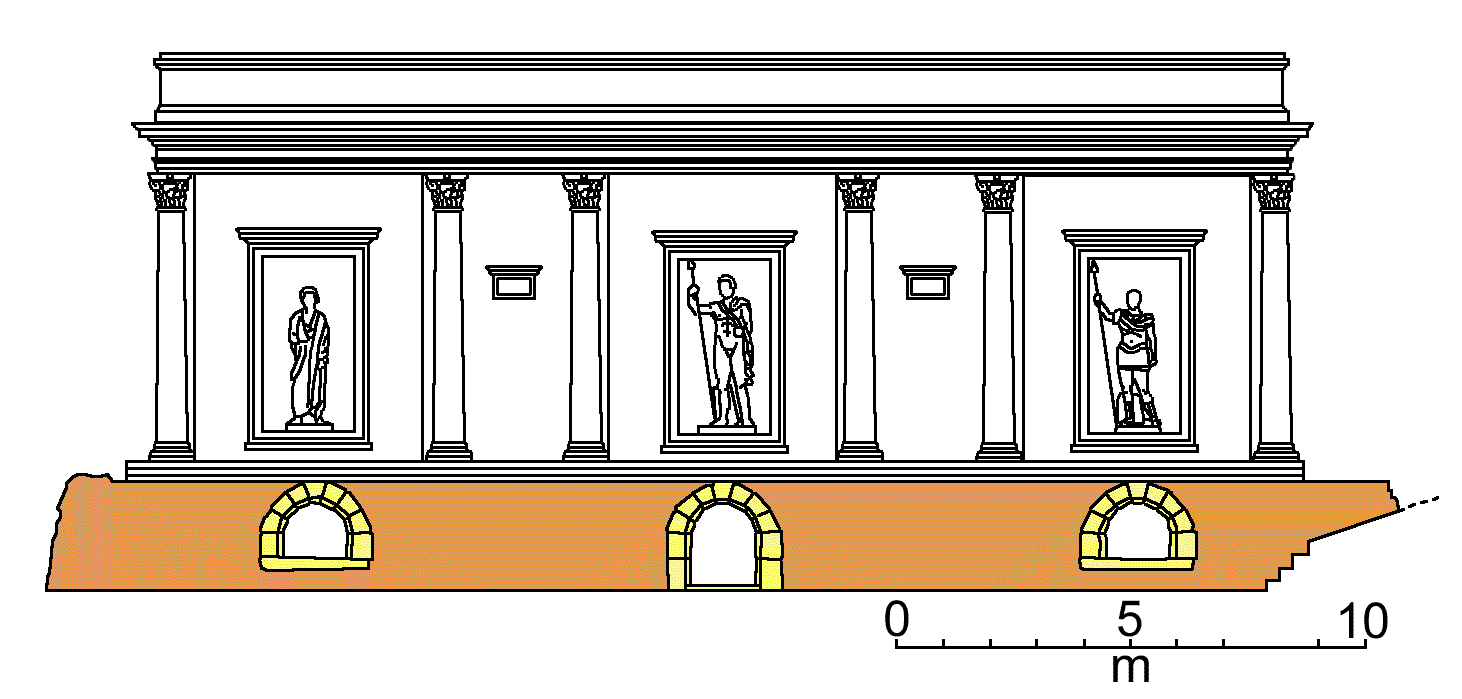 possible reconstruction of the Scipio's tumb in Rome, via Appia.